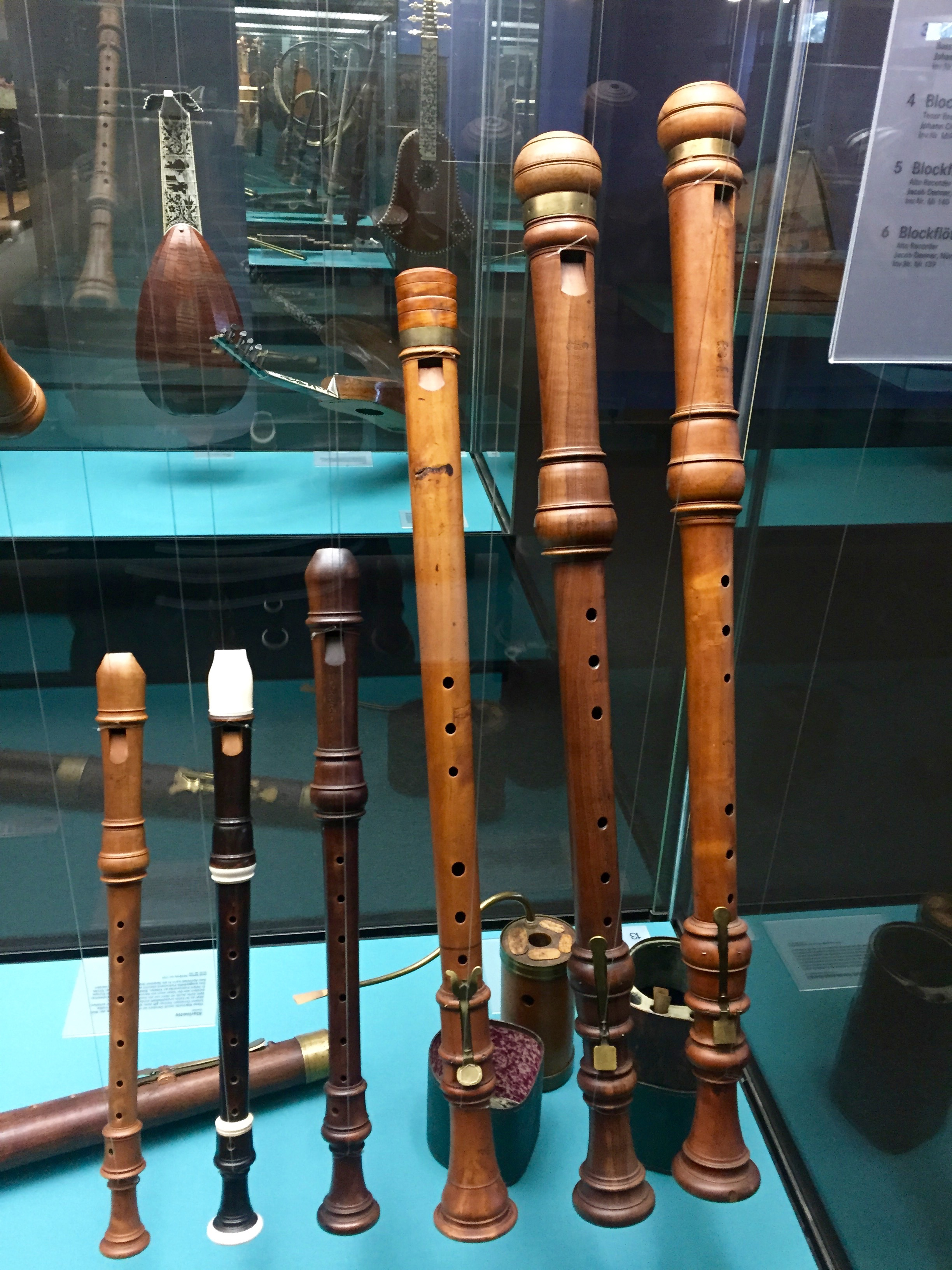 18th century recorders by Denner et al from Das Germanische Nationalmuseum Nürnberg (photo by Vicente Parrilla)